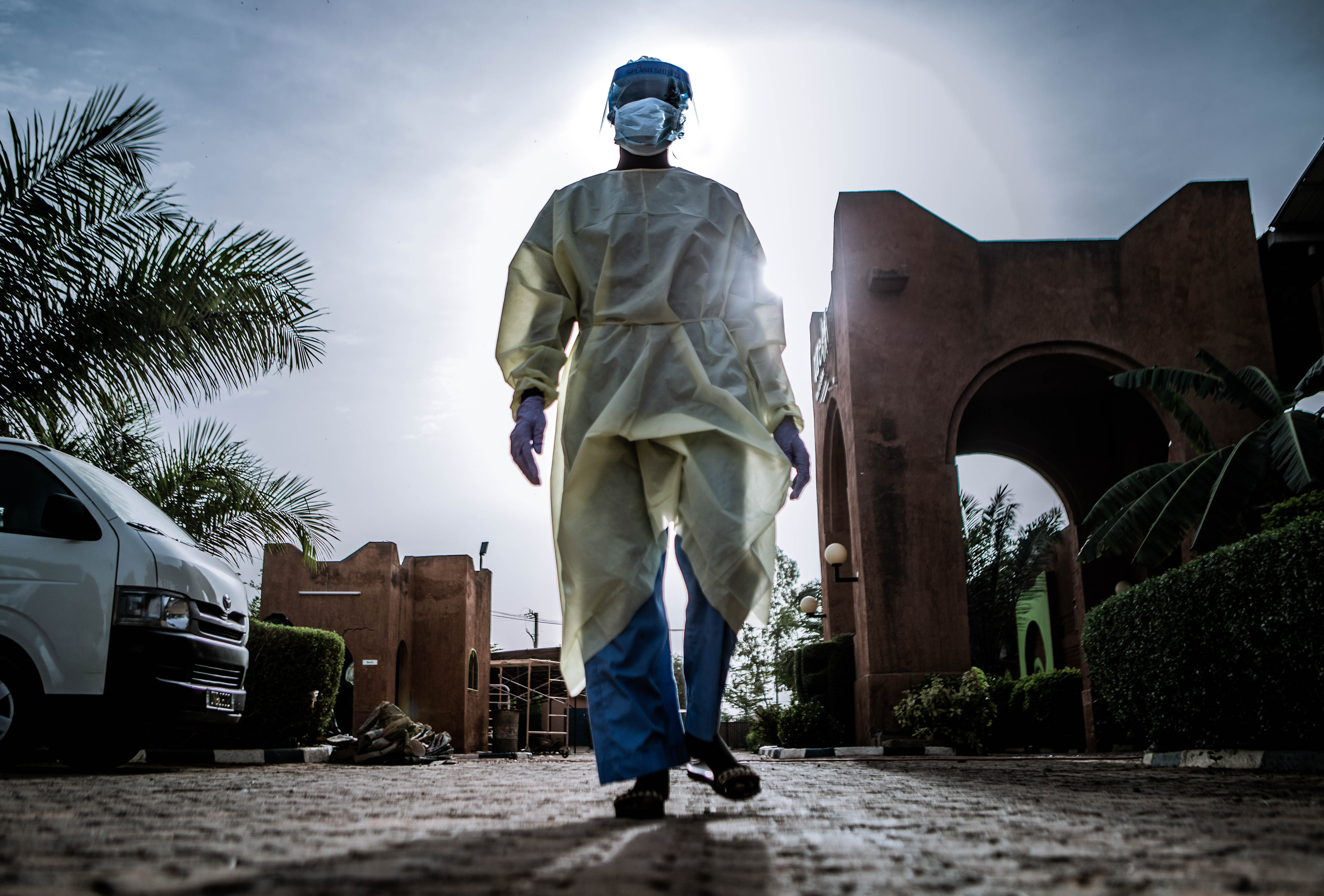 This is an image with the theme "Africa on the Move or Transport" from: Niger